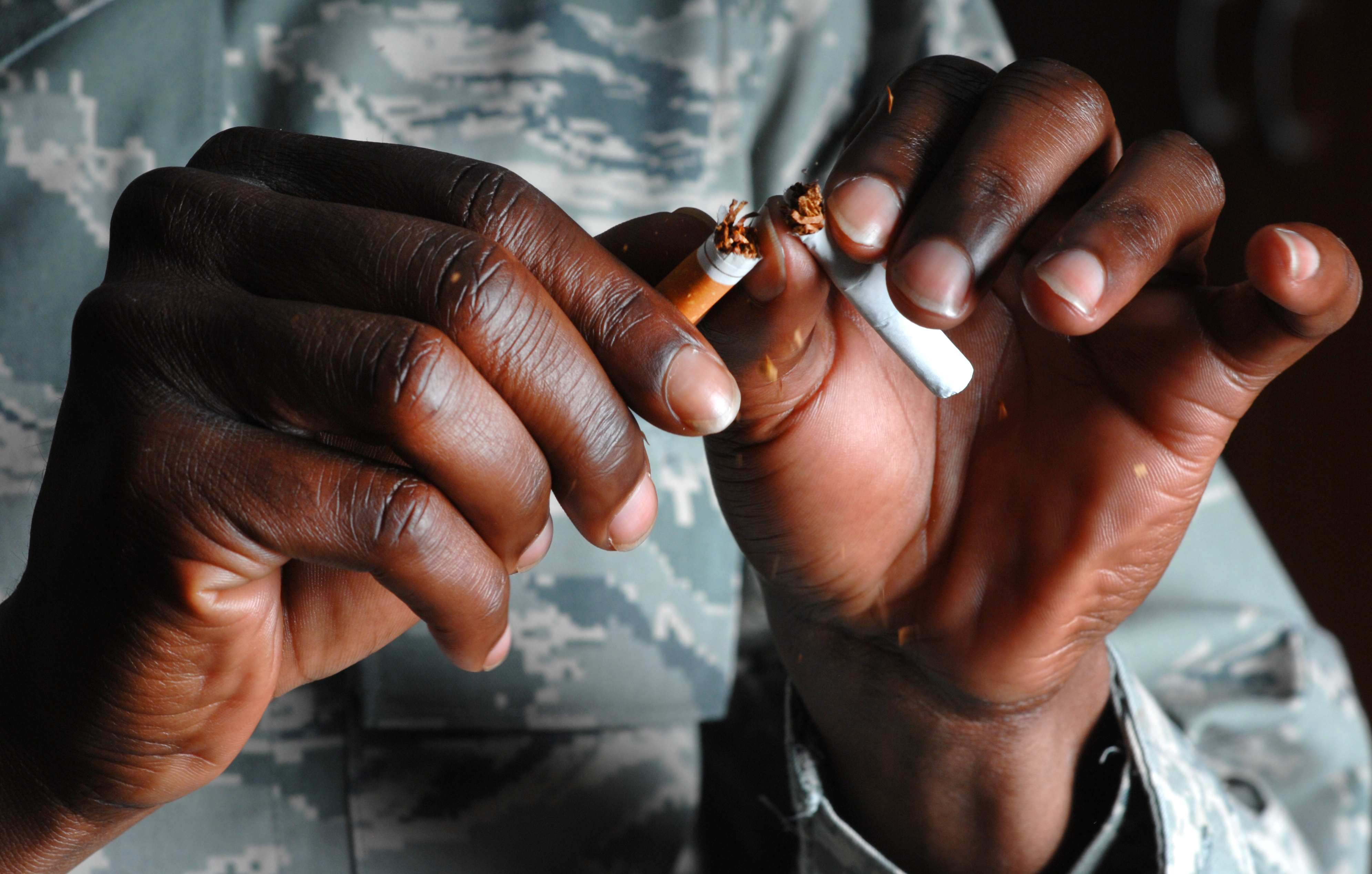 Most have heard the old expression when growing up, "never be a quitter." Sometimes being a quitter is the best thing to do, especially when it comes to smoking.